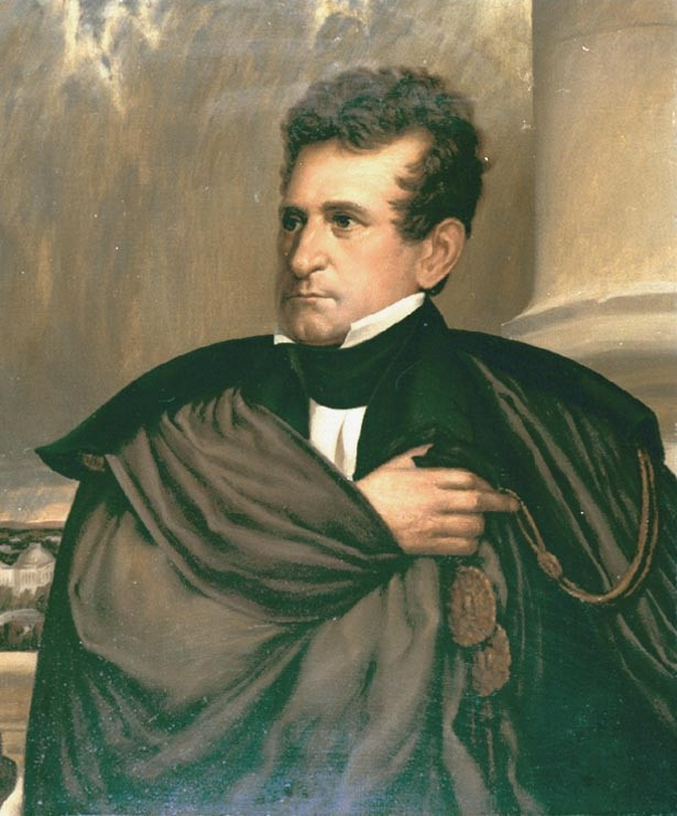 Samuel L. Southard, Secretary of the Navy, 16 September 1823 - 3 March 1829